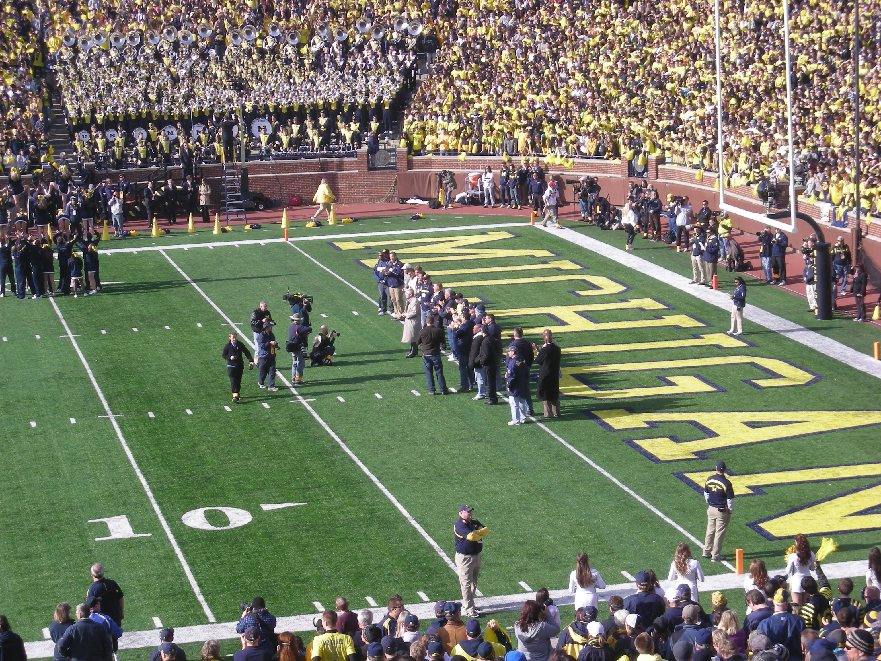 The 1992 Michigan team being honored during the Iowa Hawkeyes vs. Michigan Wolverines football game at Michigan Stadium in Ann Arbor, Michigan (United States). Michigan won 42–17.